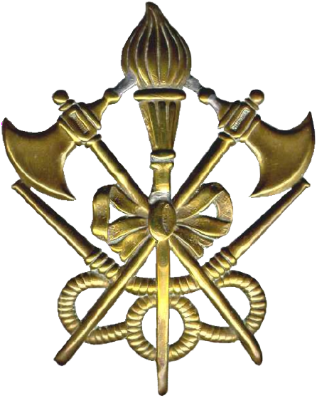 Old insignia of Firemen - Brazil.